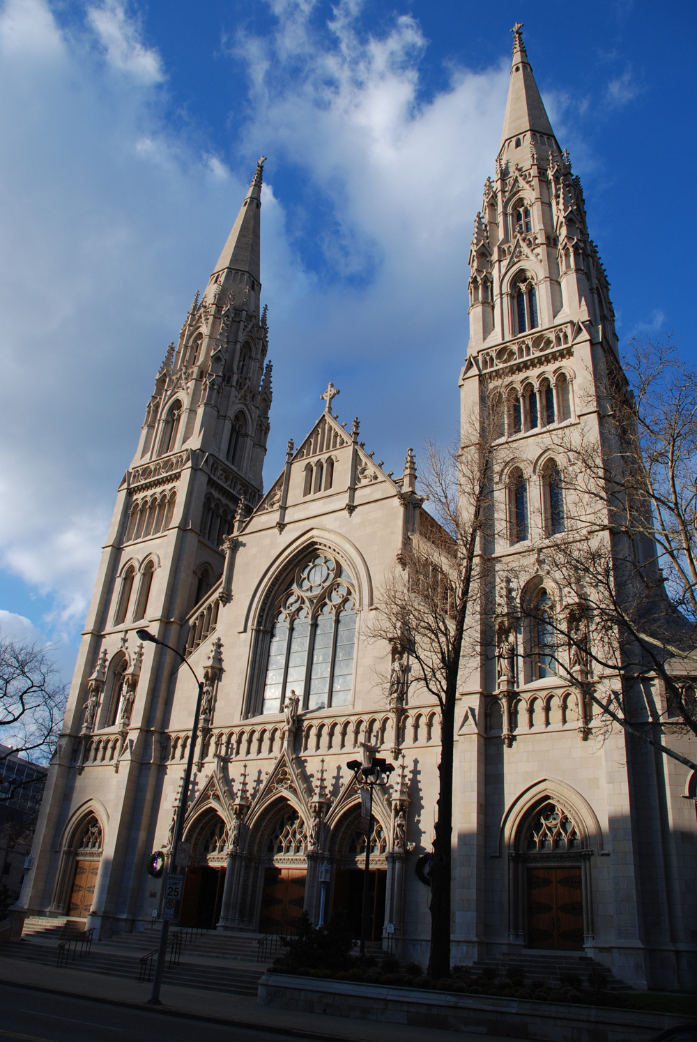 Taken by J.W. Ramp 2006.